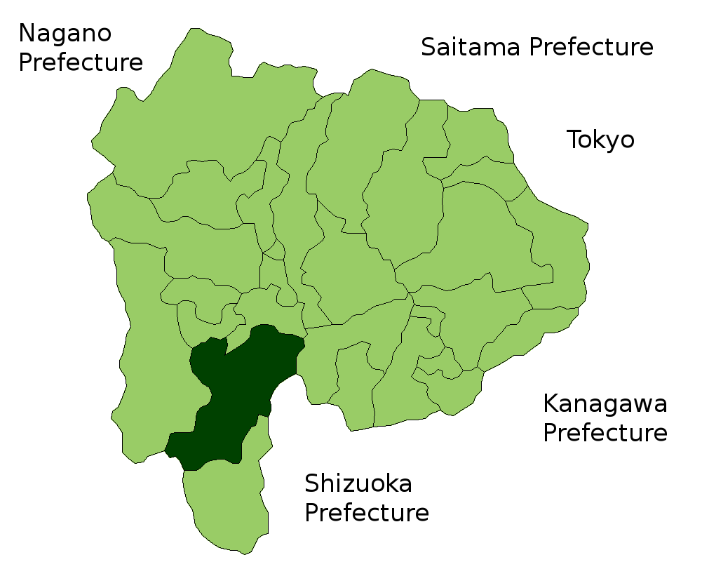 Location Map of Minobu in Yamanashi Prefecture, Japan